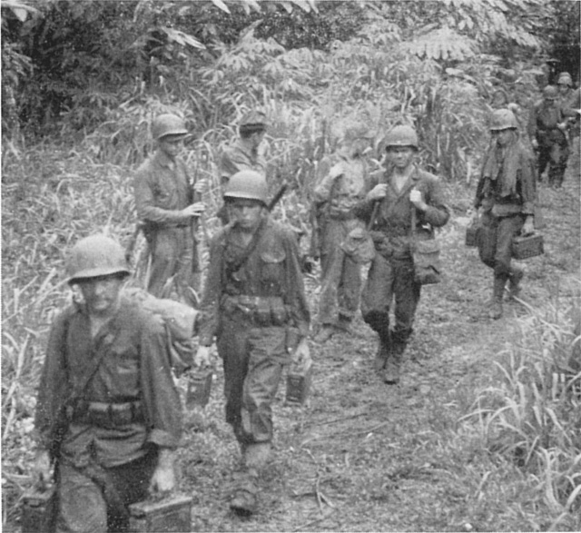 US Marine ammunition carriers advance towards the Talasea airstrip